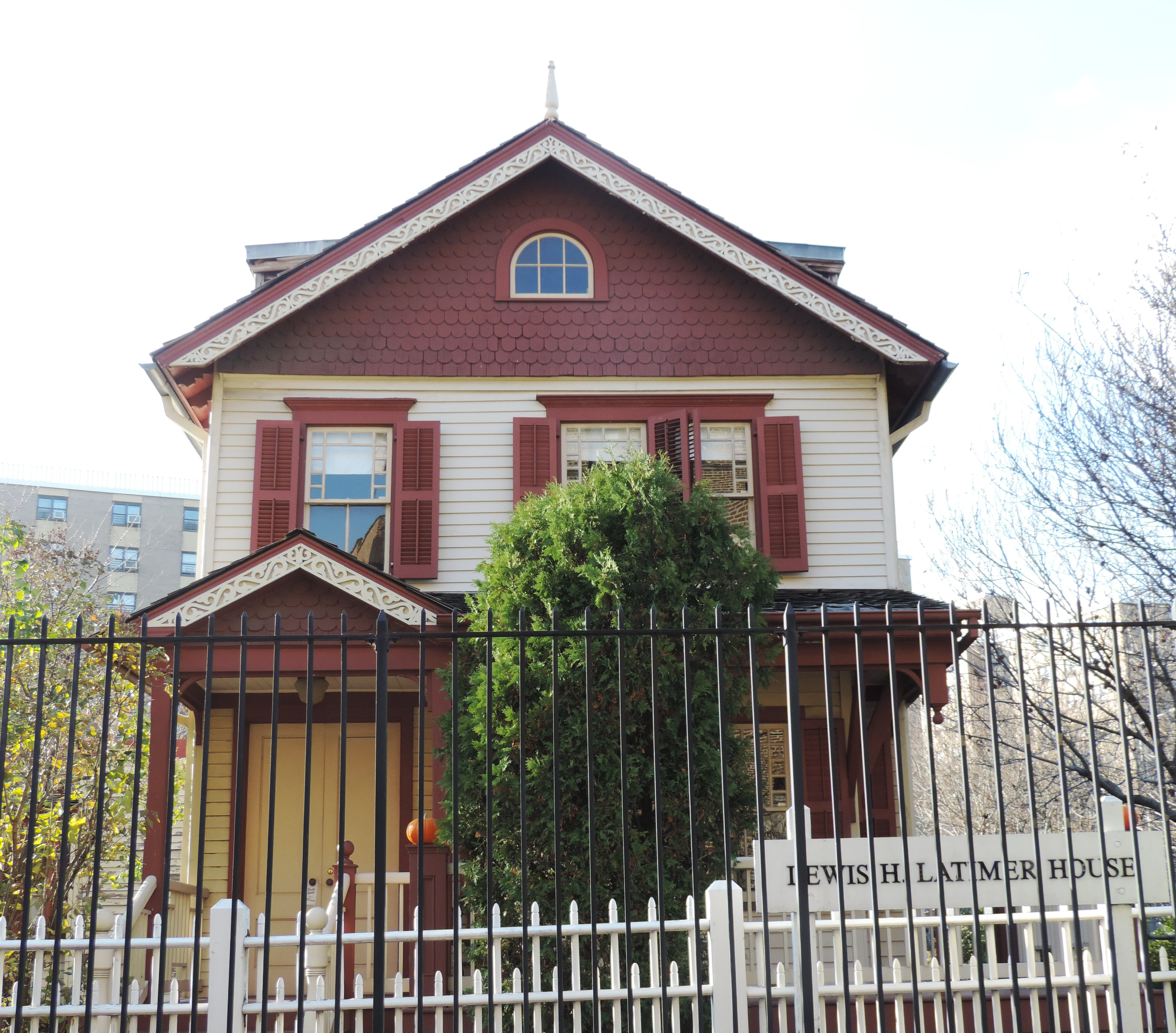 Looking west at house on a cloudy day.